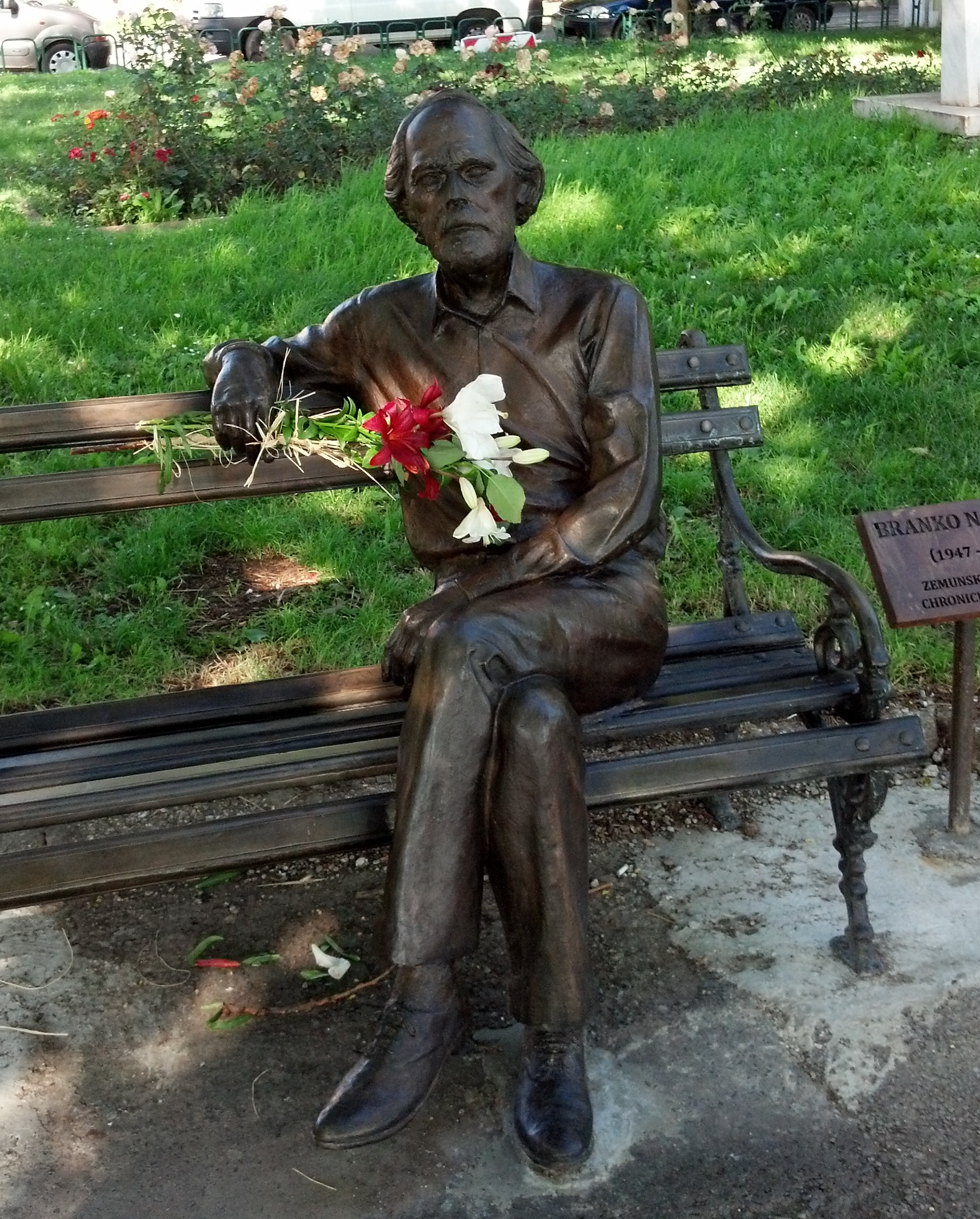 Memorial bench to Branko Najhold on the Zemun Quay